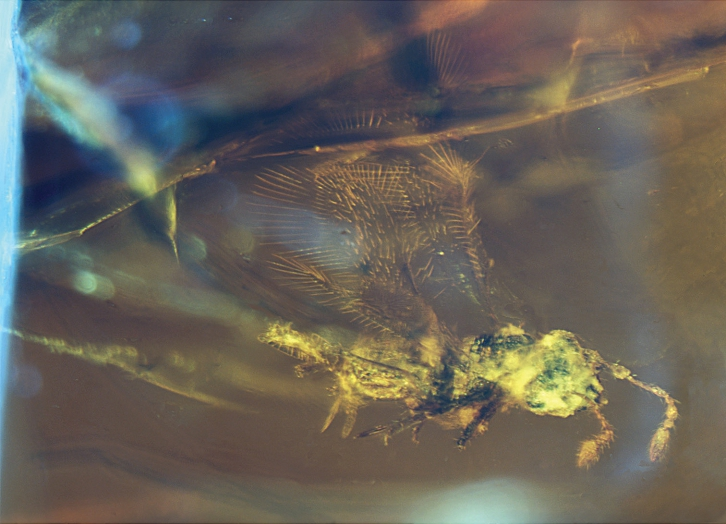 Carpenteriana tumida Yoshimoto, 1975